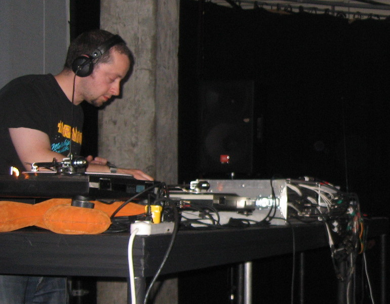 Kode9 and the Spaceape performing in 2007